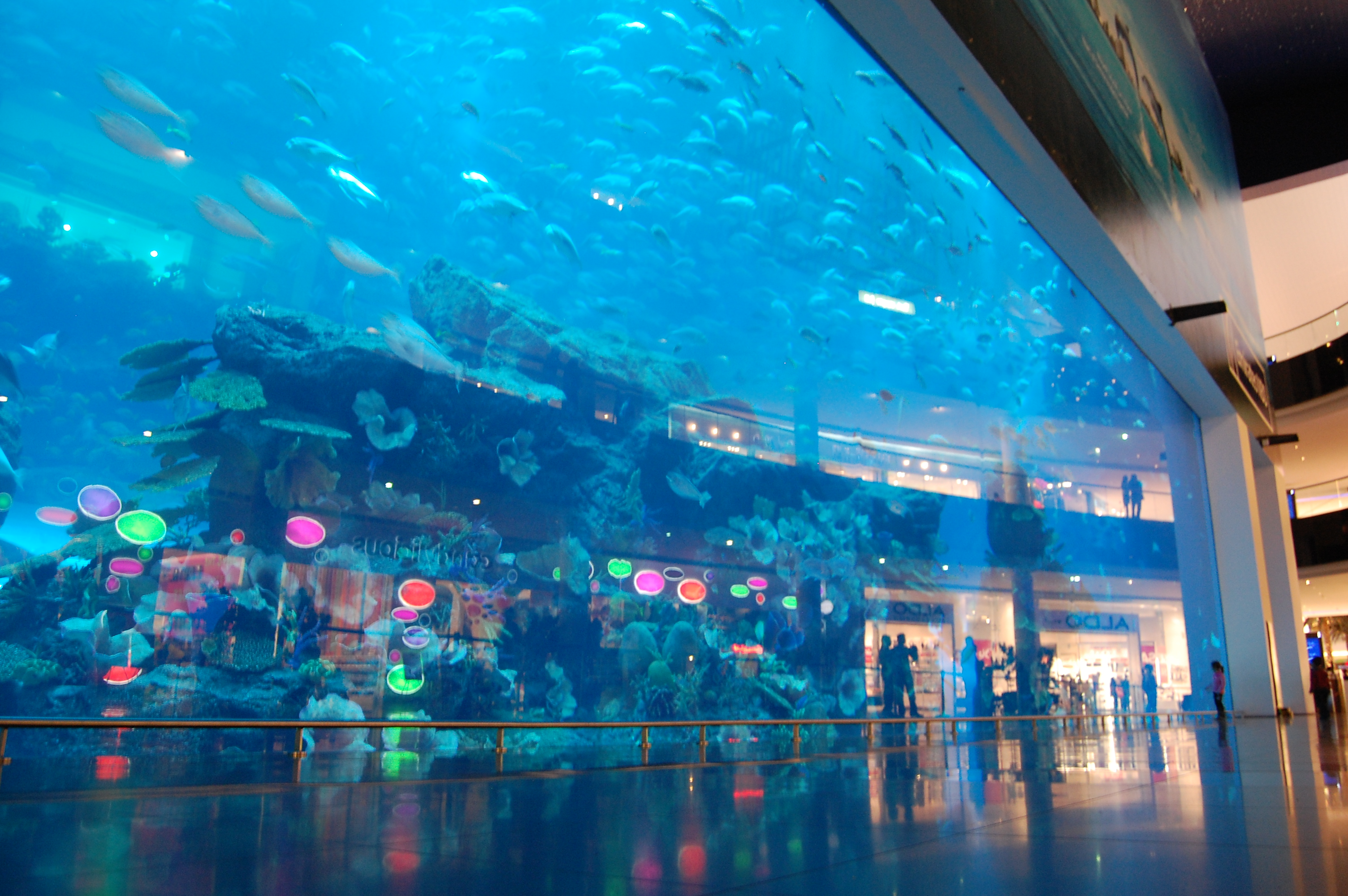 Dubai Aquarium & Underwater monkey